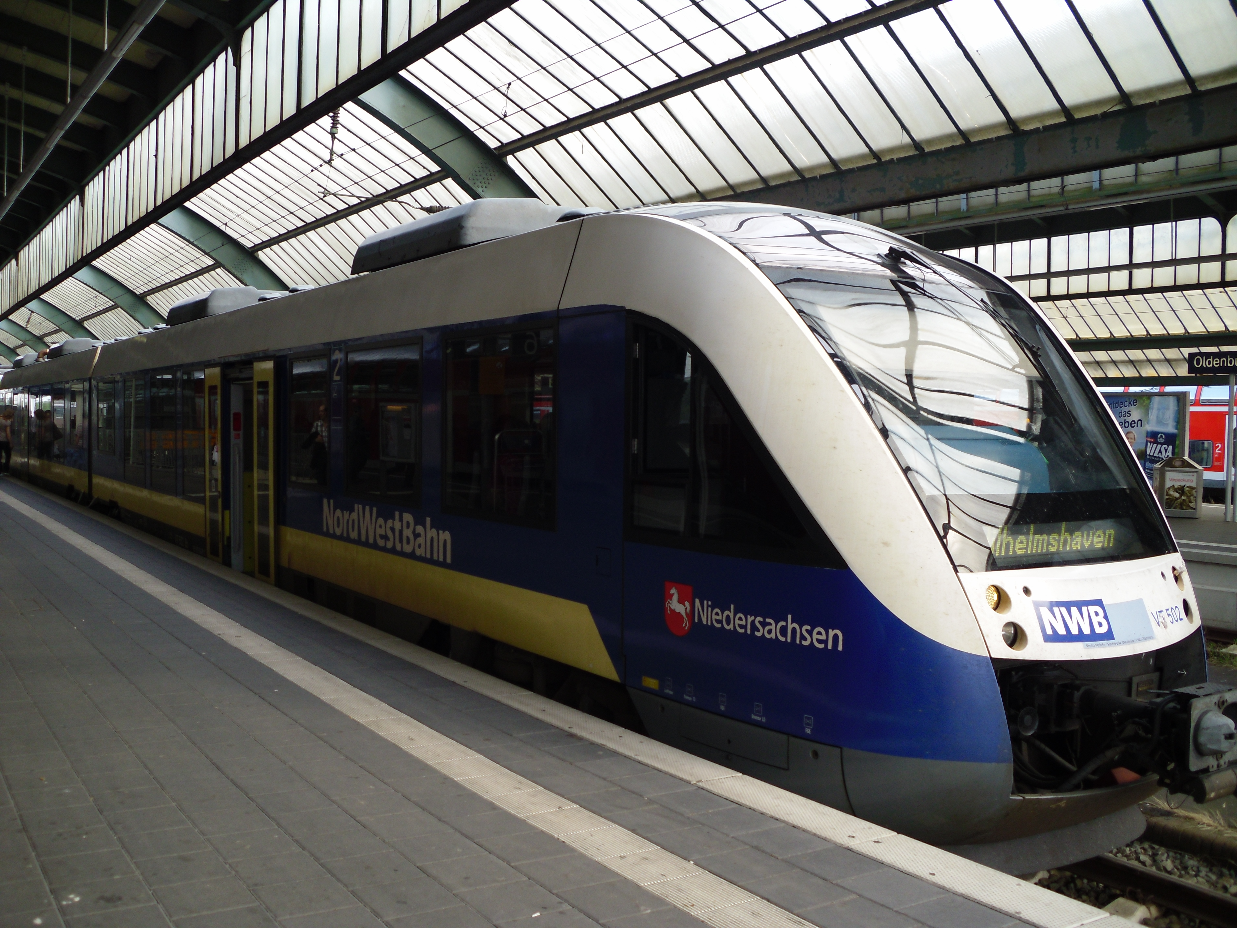 NordWestBahn LINT 41 (VT 500–533)